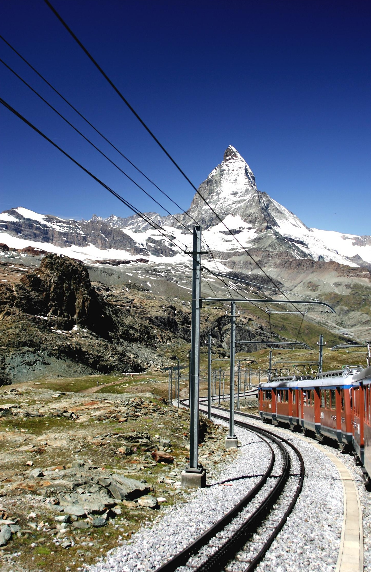 Matterhorn from the train to the Gornergrat